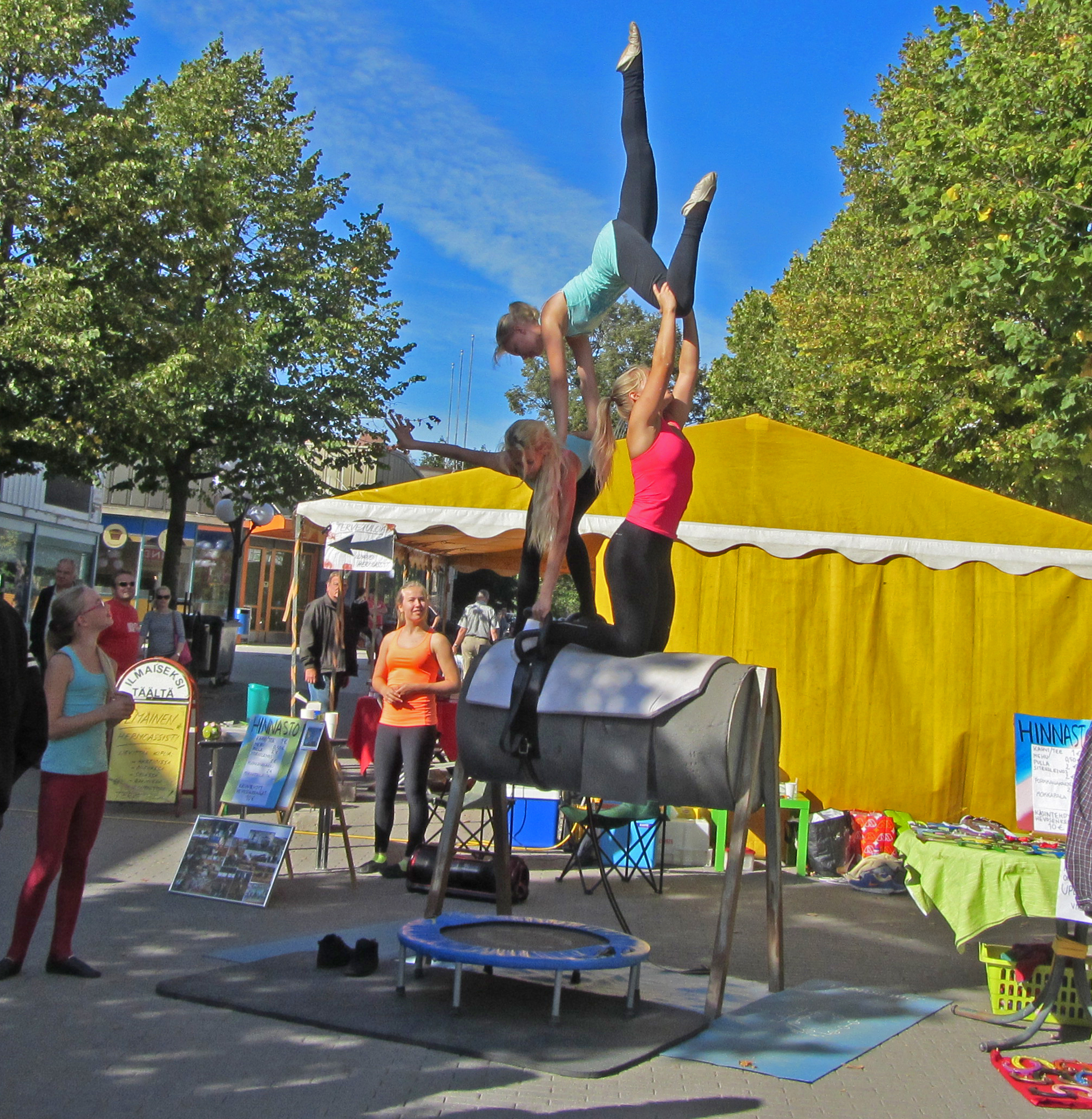 These girls give a vaulting show on a wooden horse.